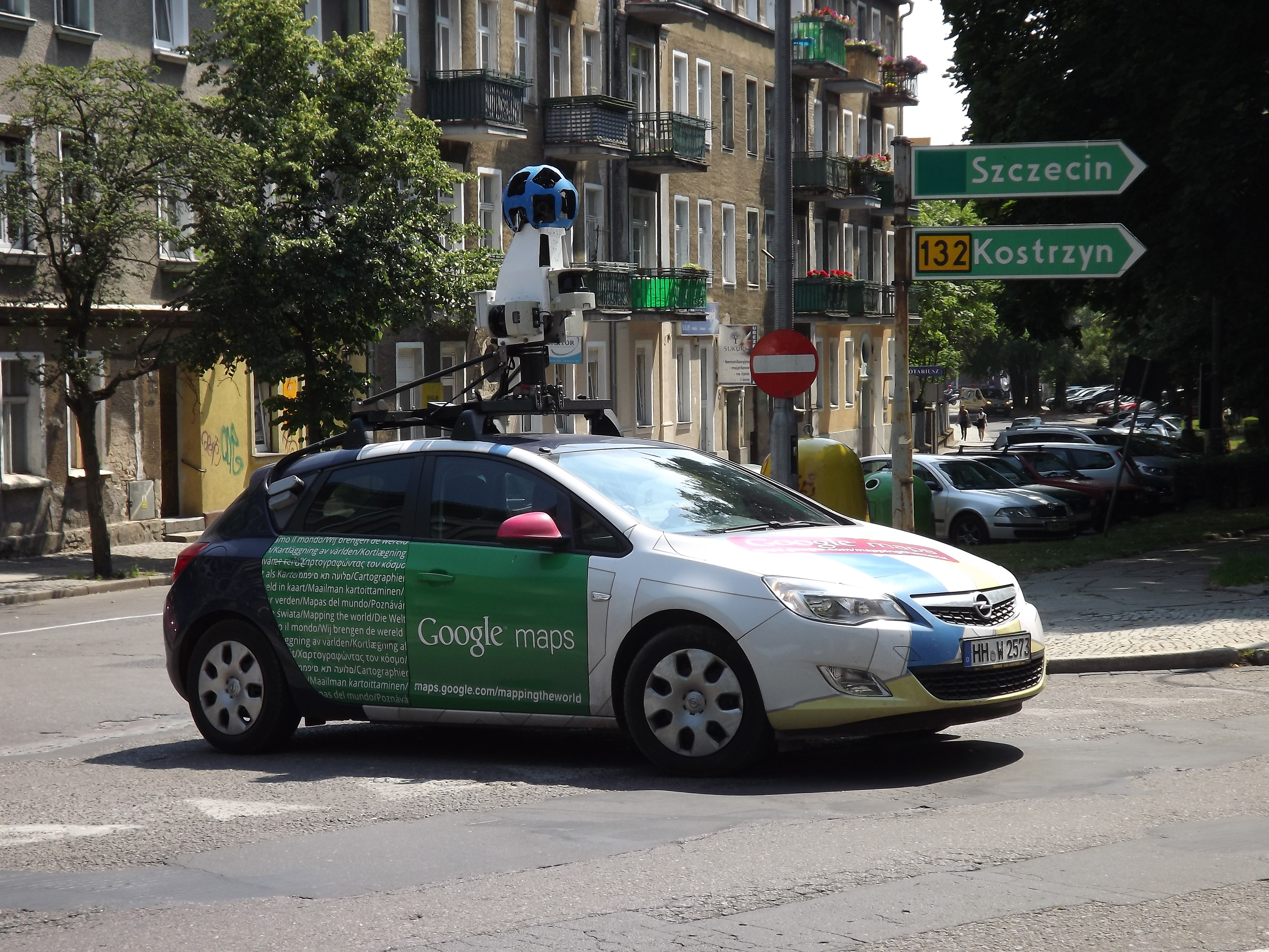 Google Street View camera cars in Gorzów Wielkopolski